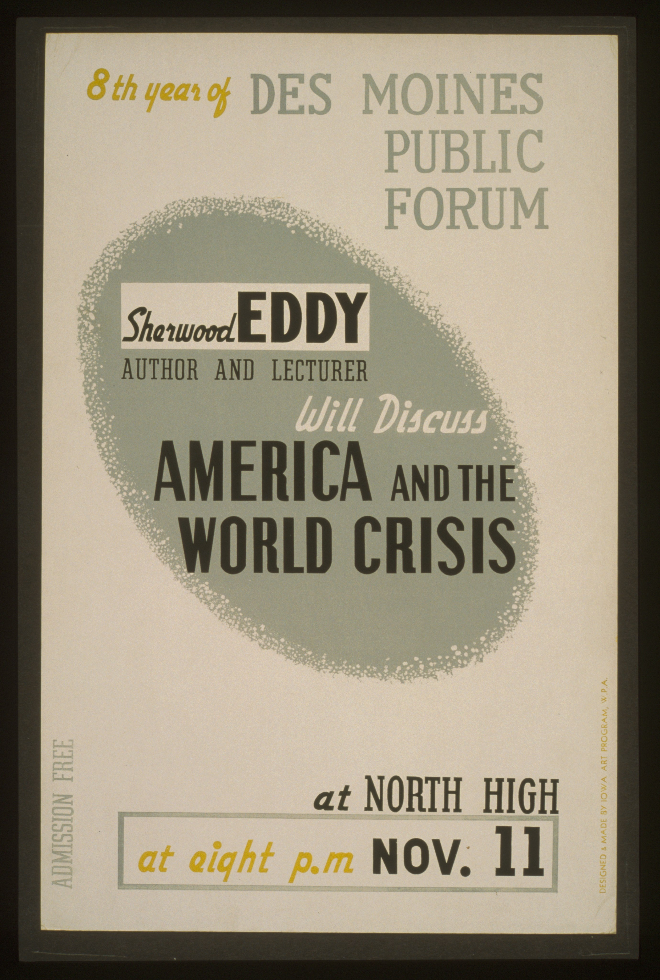 Title: Sherwood Eddy, author and lecturer, will discuss "America and the world crisis" Abstract: Poster announcing a public forum to be held at North High, Des Moines, Iowa, at which Sherwood Eddy will discuss "America and the world crisis." Physical description: 1 print on board (poster) : silkscreen, color. Notes: designed & made by Iowa Art Program, W.P.A.; Work Projects Administration Poster Collection (Library of Congress).; Date stamped on verso: Nov 8 1940.